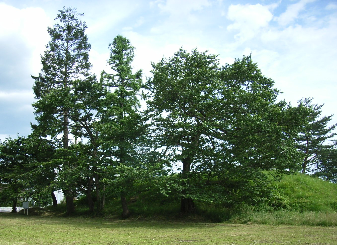 Kabutozuka Kofun. Taihaku ward, Sendai, Miyagi prefectrure, Japan.